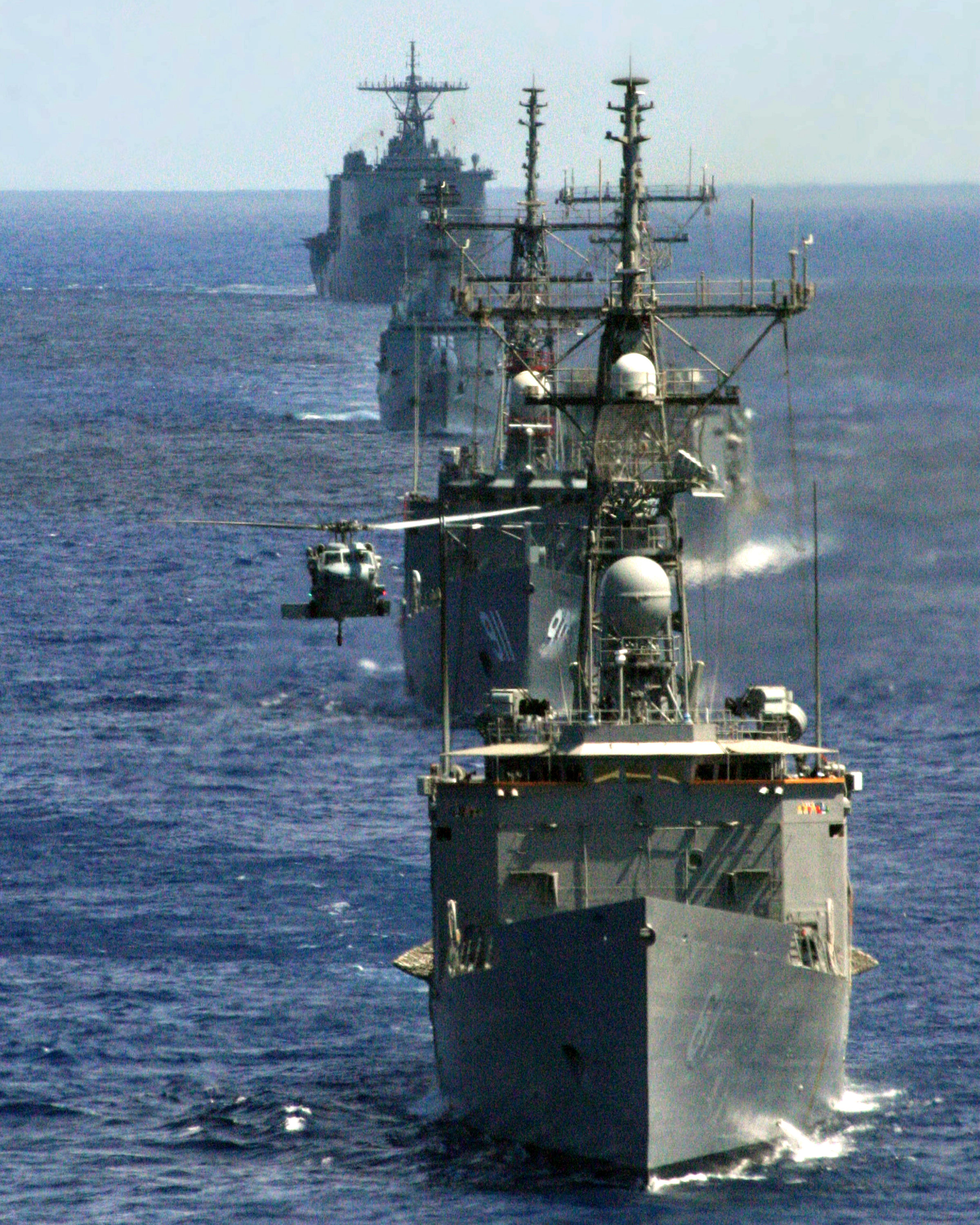 Mediterranean Sea (Sept. 23, 2005) - A SH-60 Seahawk helicopter prepares to land on the flight deck of the guided missile frigate USS Ingraham (FFG 61) as Coalition naval vessels move into formation in the Mediterranean Sea. The Ingraham leads the way as it prepares for an aerial photo exercise in the Mediterranean Sea. The following vessels are in formation, Egyptian frigates ENS Sharmal Seikh and ENS Mubarak, the Pakistan ship PNS Tariq, the Italian ship IT Commondante Bettica and the dock landing ship USS Pearl Harbor (LSD 52). All ships are participating in Bright Star 2005, a multinational exercise held every two years in Egypt. Bright Star is the largest and most significant coalition military exercise conducted by U.S. Central Command. U.S. Navy photo by Photographer's Mate 1st Class Marvin Harris (RELEASED)